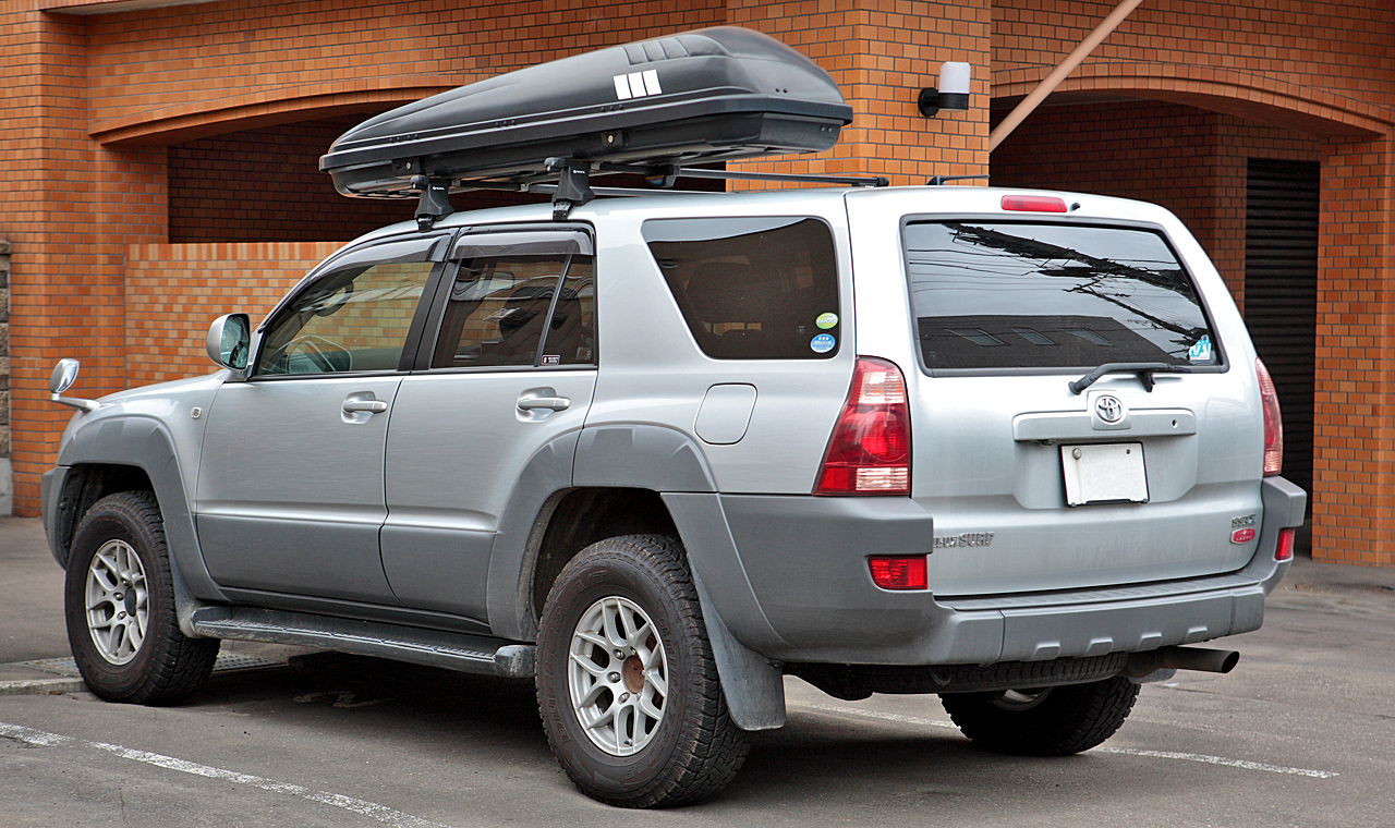 Toyota Hilux Surf SSR-X American version